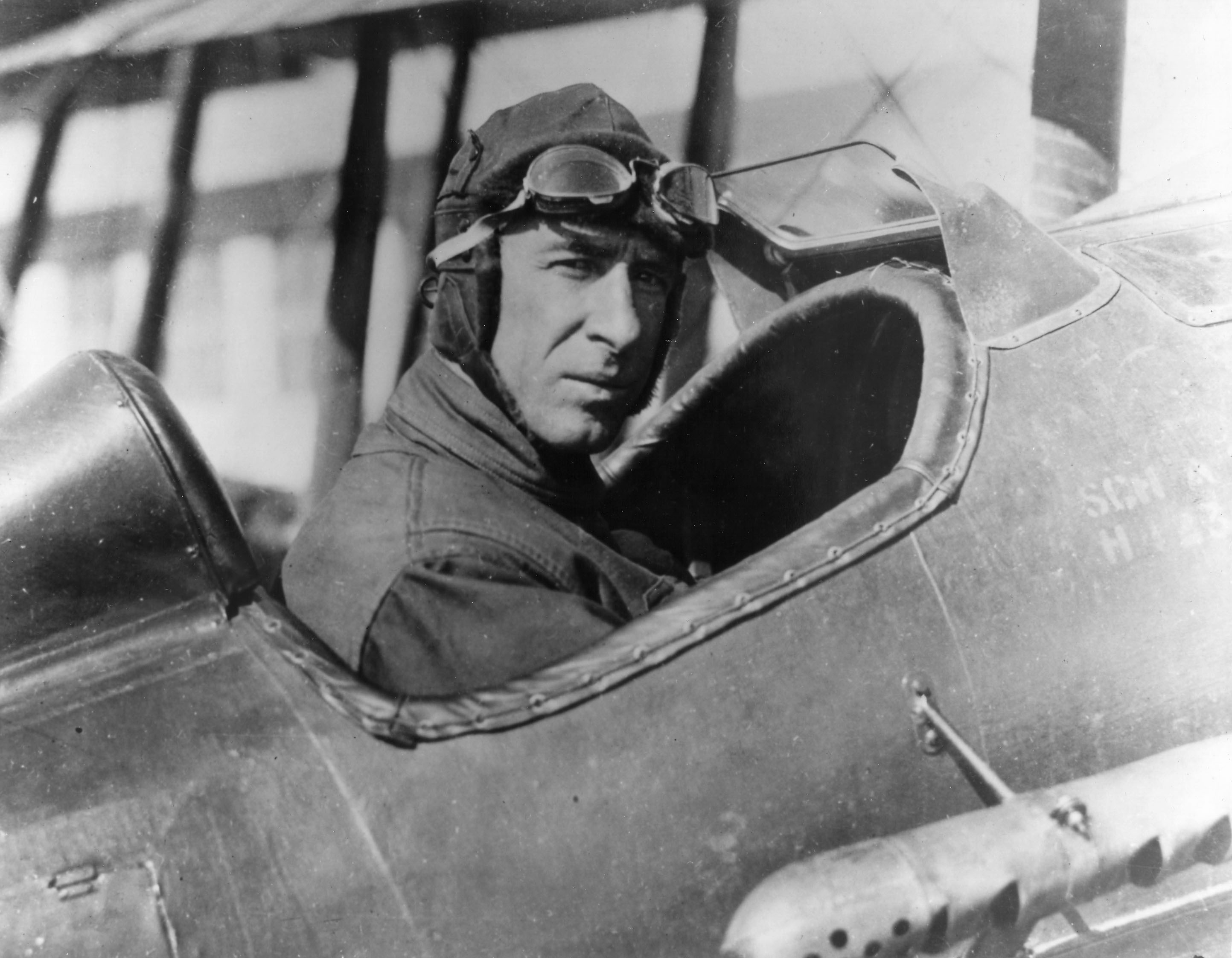 EARLY YEARS -- William C. Ocker, the father of "Blind Flying," flew from Brooks Field, San Antonio, Texas, to March Field, California in a covered cockpit to prove that a pilot's instrumentation could be more reliable than his own natural senses.